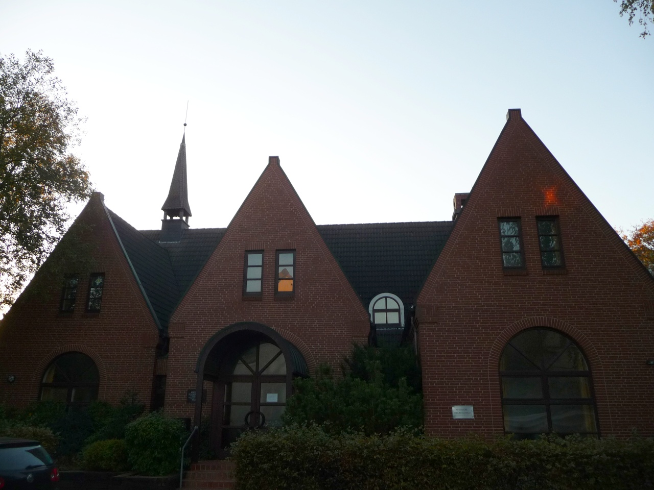 Meetinghouse of The Church of Jesus Christ of Latter-day Saints in Bremen-Schwachhausen, Germany